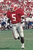 University of Georgia's Garrison Hearst against the Kentucky Wildcats.